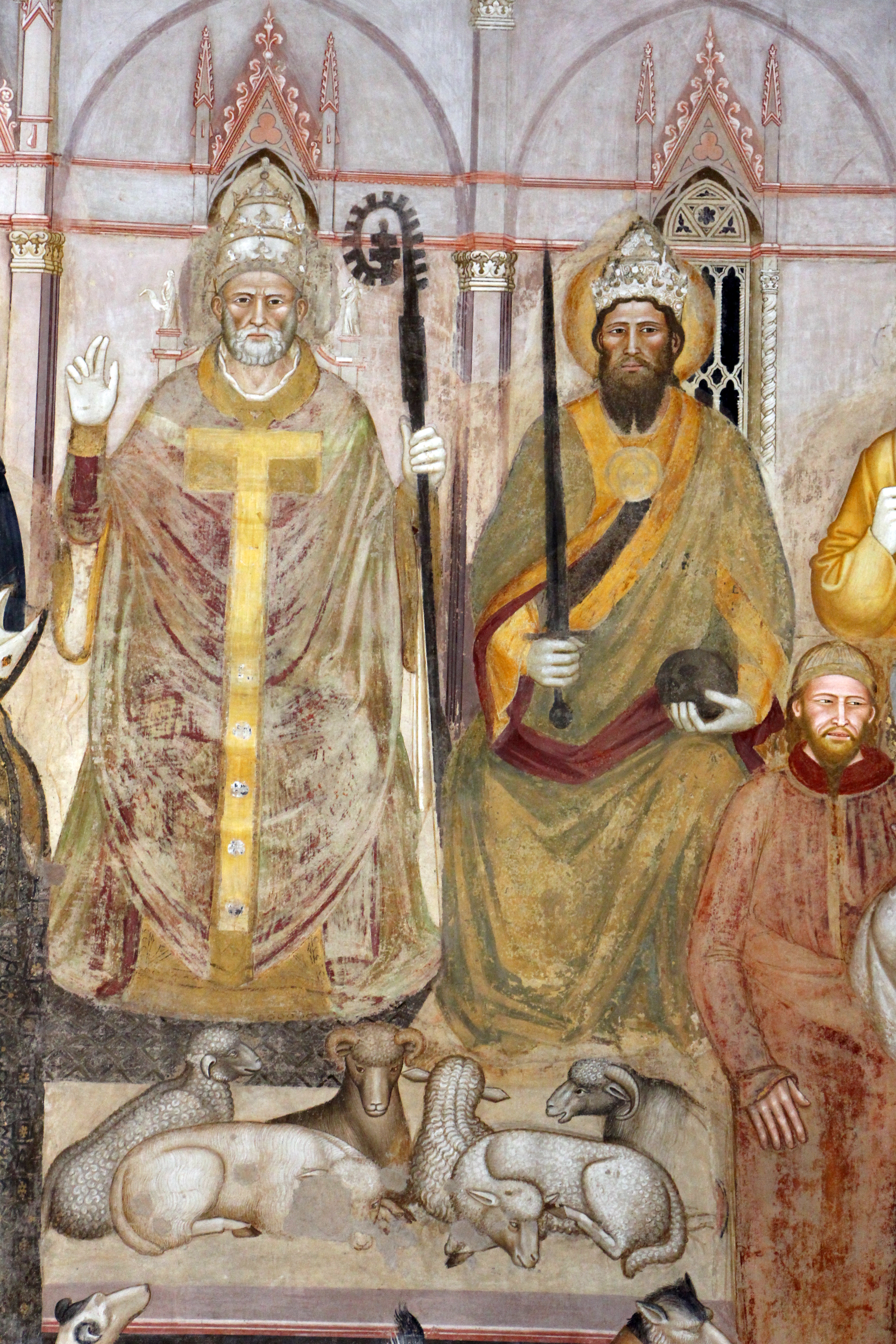 Scene with the faithful on the left, a group of about five dozen figures representing Christendom, and illustrating the religious and secular hierarchies. At the center are pope and emperor. The secular figures range from the emperor down to beggars and cripples. Behind them is the great Florentine Duomo, representing the Church.